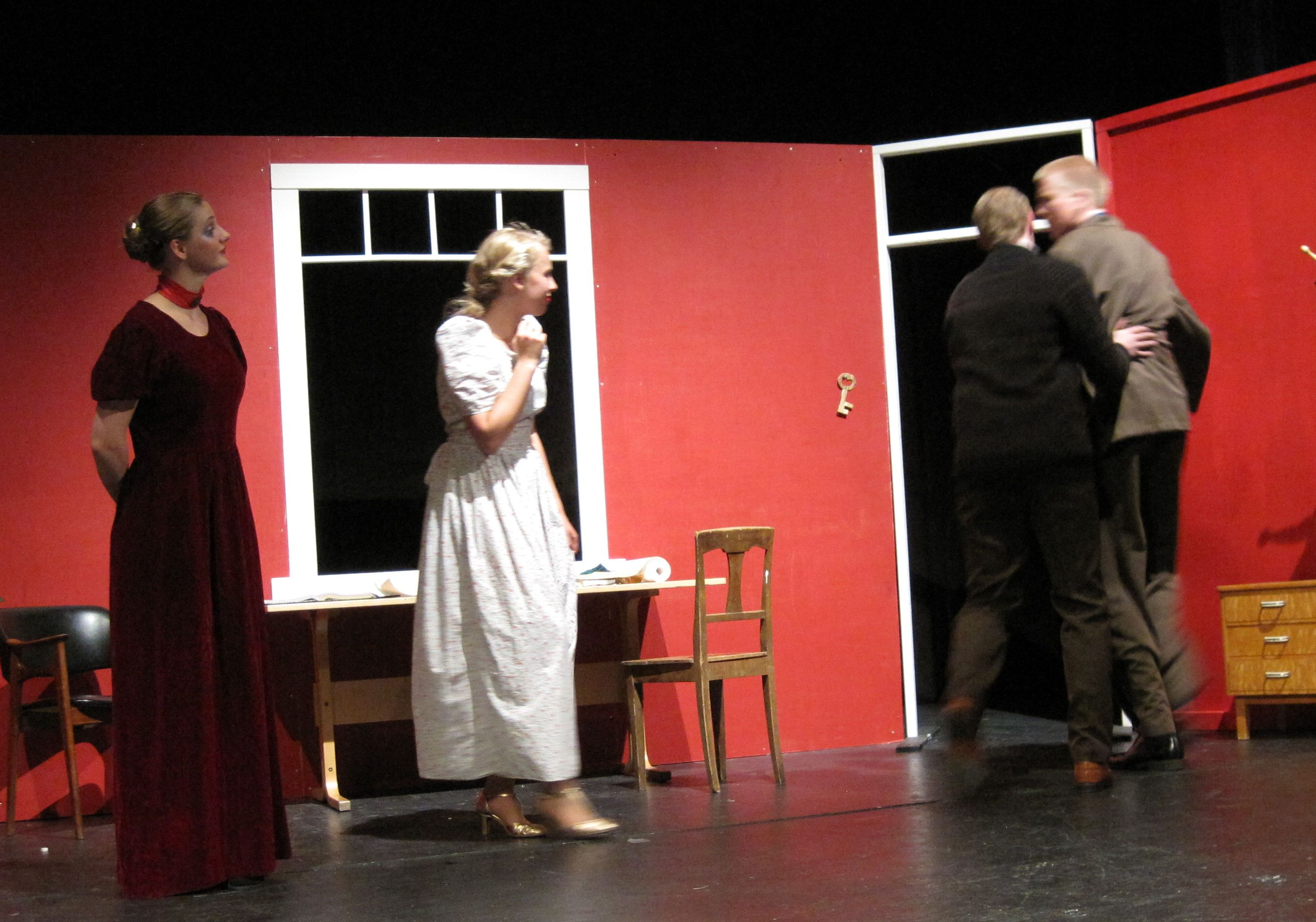 Act three of Hotel Paradiso: Monsieur Mathieu is pushed into the bedroom by Pinglet. From left to right: Angelique, Marcelle, Pinglet and Mathieu. Photograph is from a 2009 performance of Hotel Paradiso in Hamar, Norway.